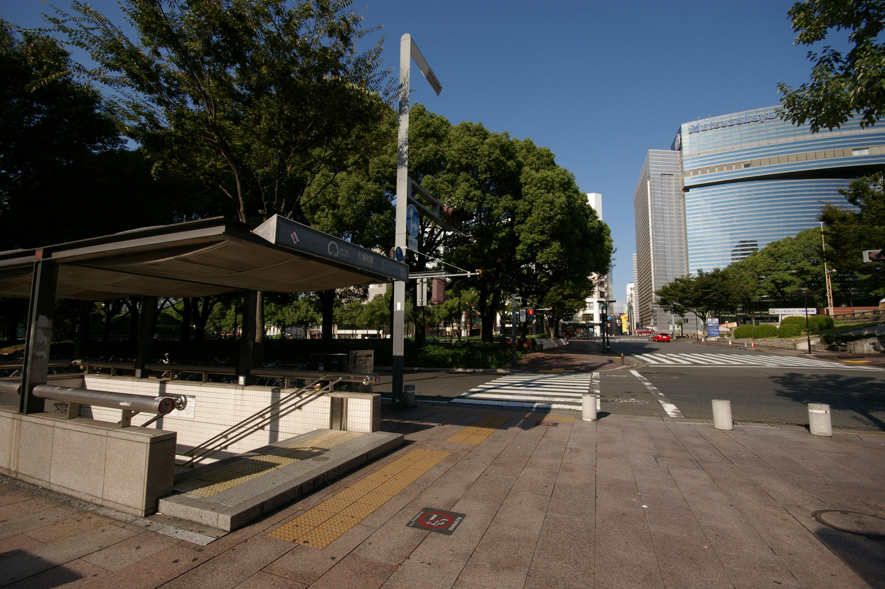 Nagoya Subway Yabacho Station